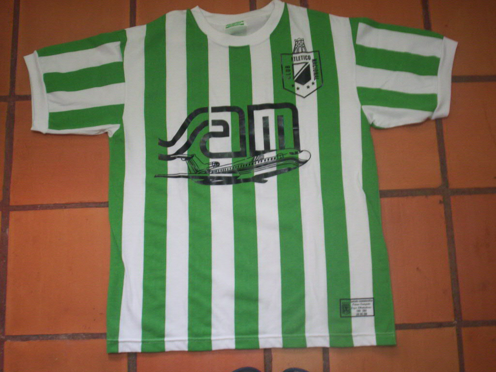 Atletico Nacional Replica 1989 Away